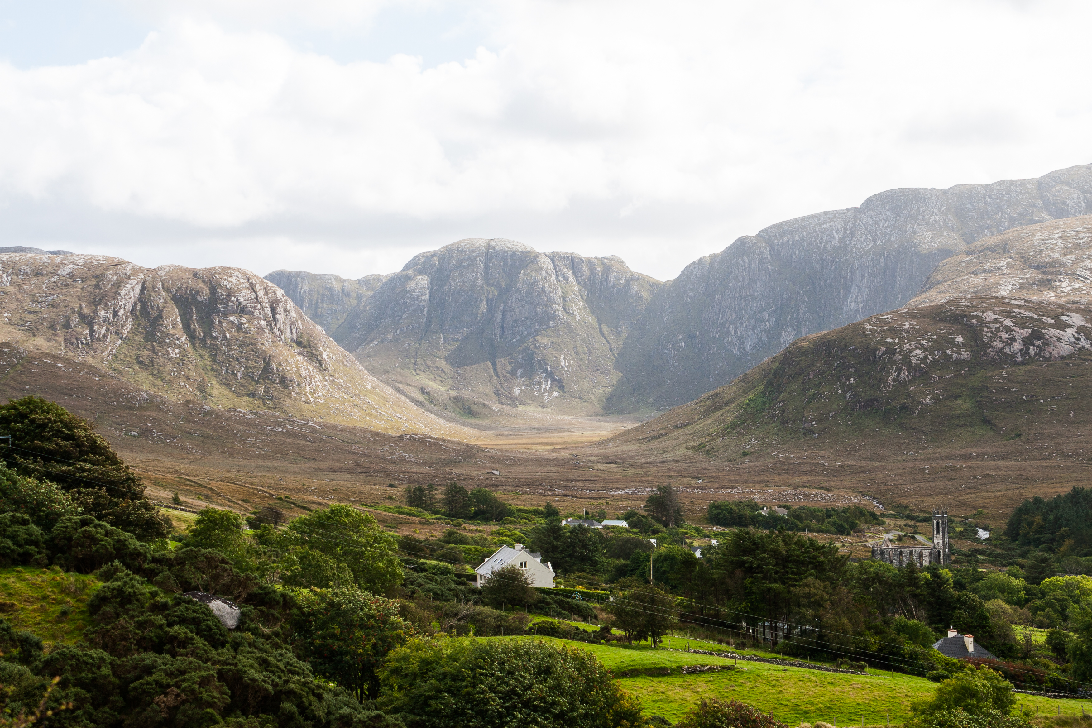 View from R251 across the village of Dunlewy into the Poisoned Glen.